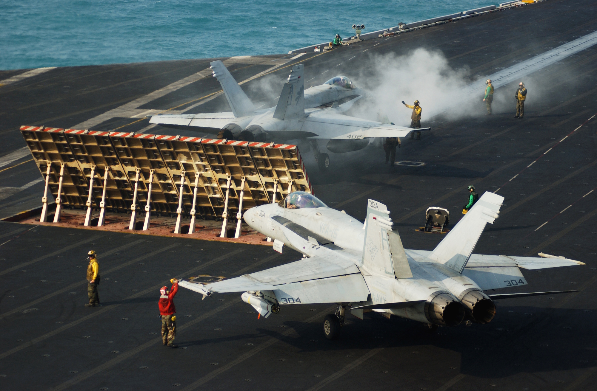 Persian Gulf (Nov. 18, 2005) - An F/A-18 Hornet assigned to the "Golden Warriors" of Strike Fighter Squadron Eight Seven (VFA-87) prepares to launch from the number two bow catapult as an F/A-18 assigned to the "Valions" of Strike Fighter Squadron One Five (VFA-15) taxis into position behind the catapult jet blast deflector (JBD) aboard USS Theodore Roosevelt (CVN 71). Roosevelt and embarked Carrier Air Wing Eight (CVW-8) are currently underway in the Persian Gulf supporting Operation Steel Curtain, a joint U.S.-Iraqi military offensive aimed at preventing cells of Al Qaeda from entering Iraq through the Syrian border. U.S. Navy photo by Photographer's Mate Airman Apprentice Nathan Laird (RELEASED)